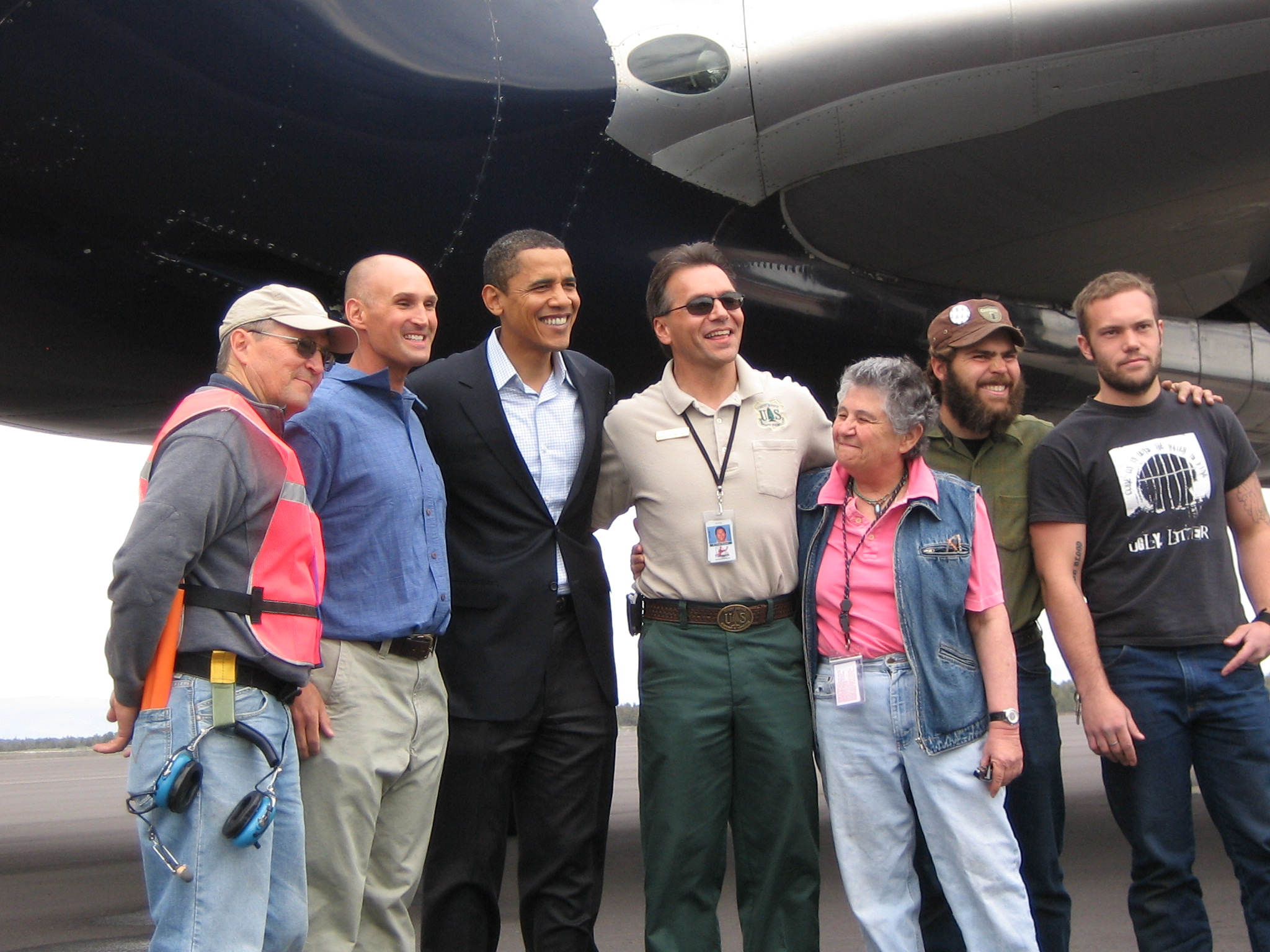 Roberts Field manager Carrie Novick and USFS Redmond Air Center manager Dan Torrence, members of their staff, and Jamin and Jeshua Marshall of the rock band Larry and His Flask. meet Sen. Barack Obama during the 2008 presidential primary campaign